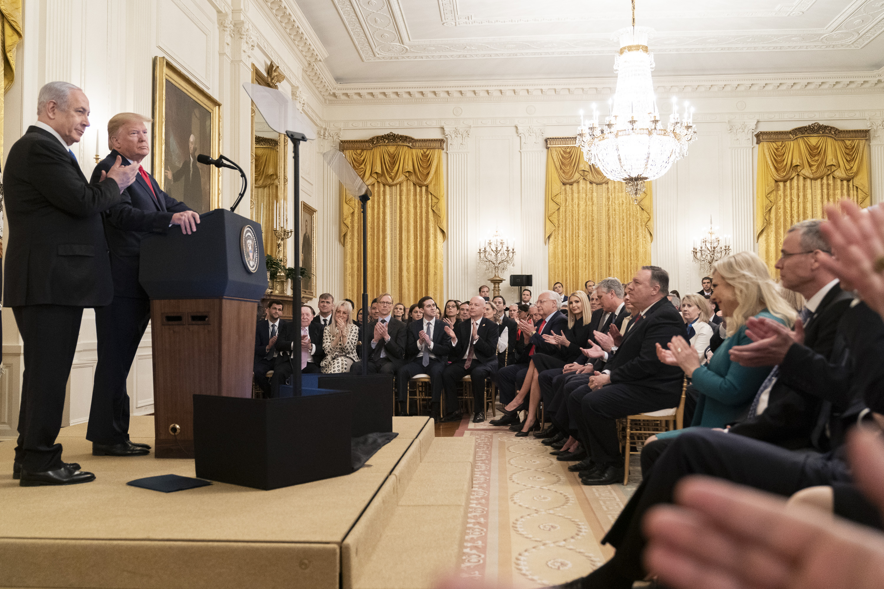 President Donald J. Trump delivers remarks with Israeli Prime Minister Benjamin Netanyahu Tuesday, Jan. 28, 2020, in the East Room of the White House to unveil details of the Trump administration’s Middle East Peace Plan. (Official White House Photo by Shealah Craighead)